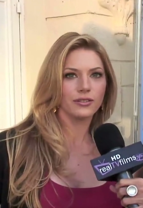 Canadian actress Katheryn Winnick, being interviewed by RealTVFilms about her role in the film Cold Souls.